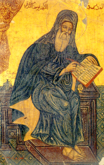 John of Damascus, icon from Damascus (Syria), 19th c., attributed to Iconographer Ne'meh Naser Homsi.